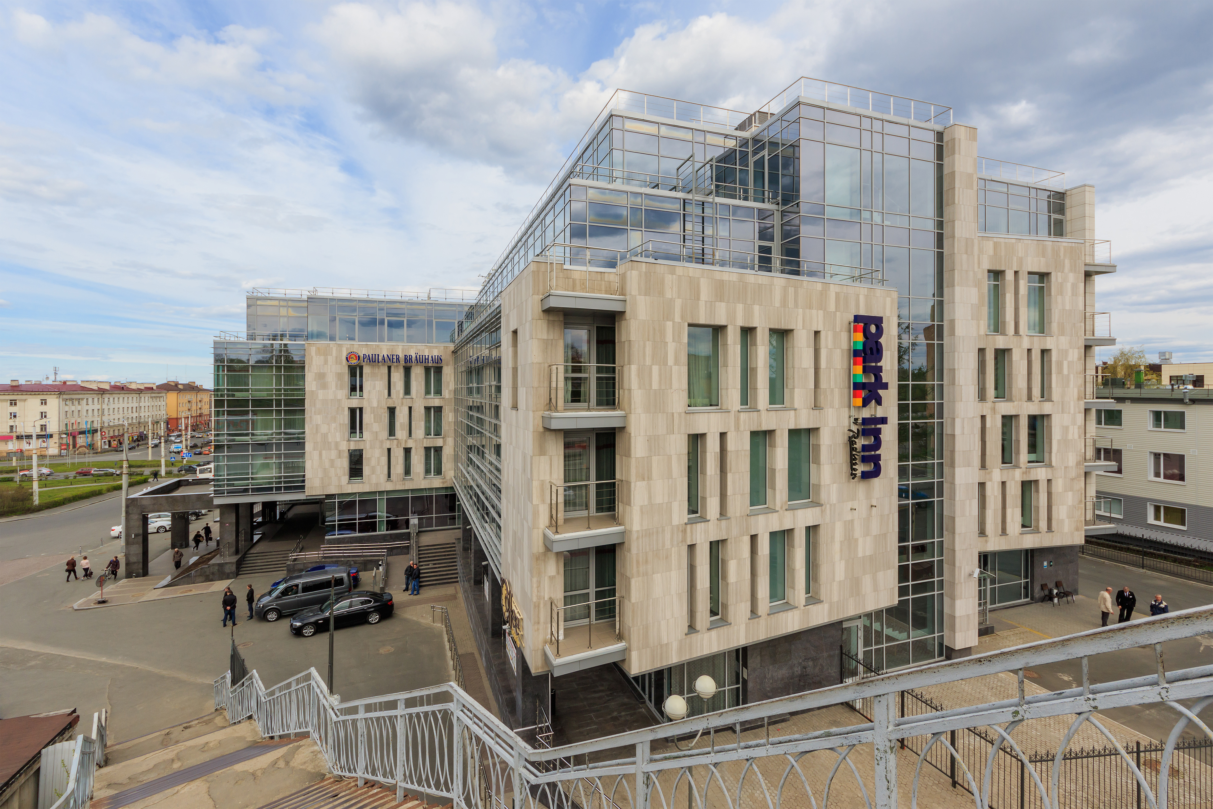 Park Inn hotel at the railway station square in Petrozavodsk, Republic of Karelia (Russia)